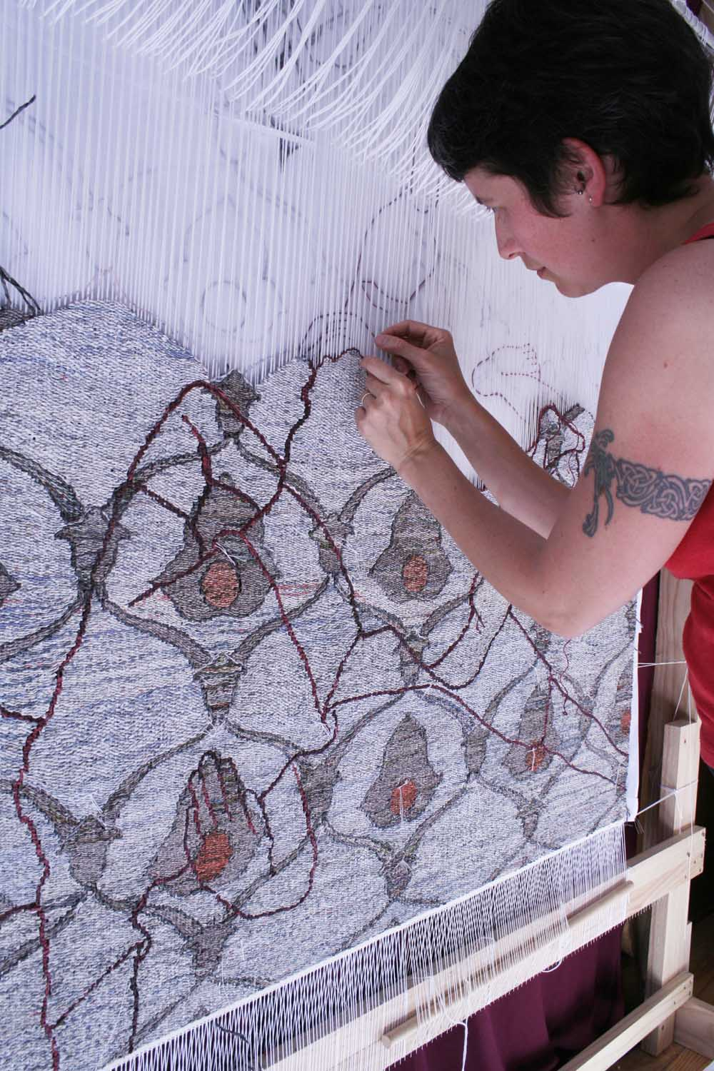 profile picture